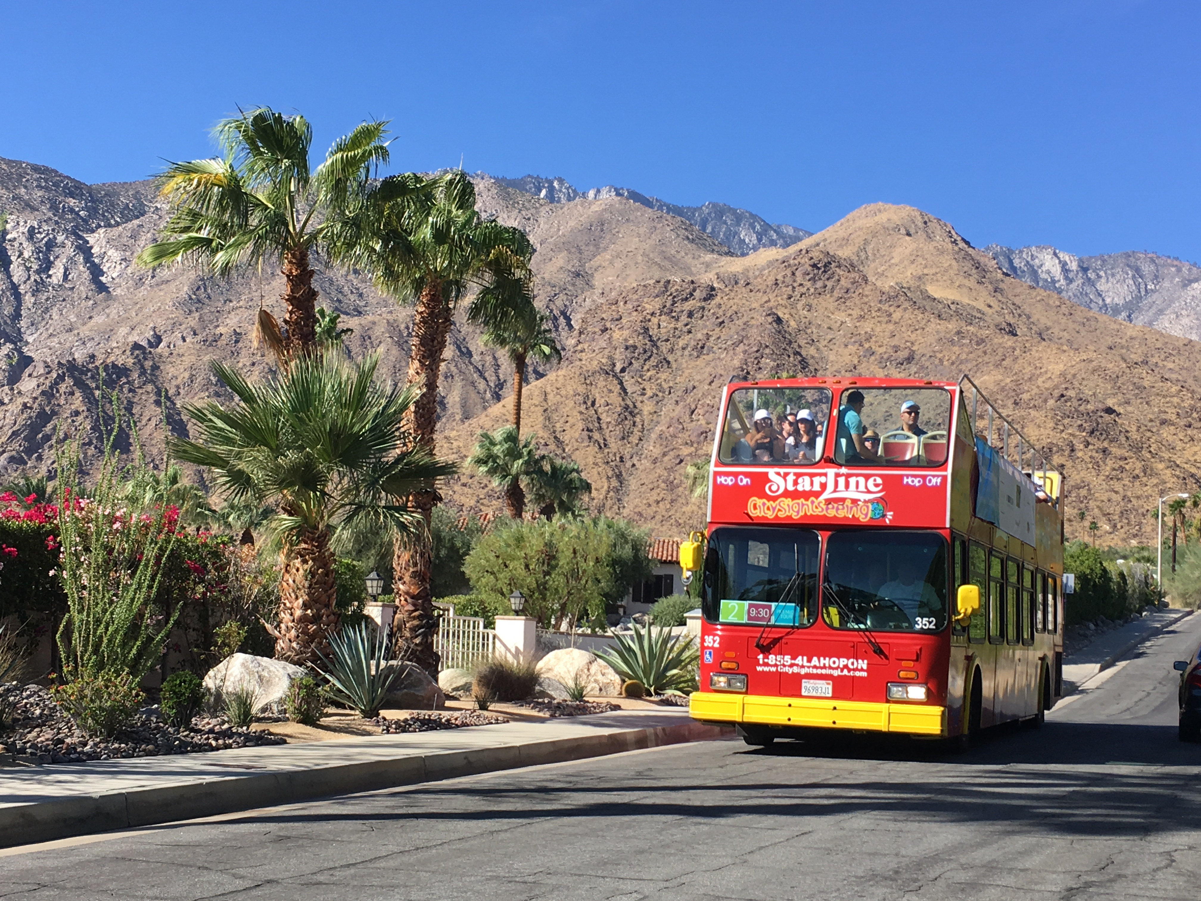 Photo of bus tour during Modernism Week in Palm Springs 2017